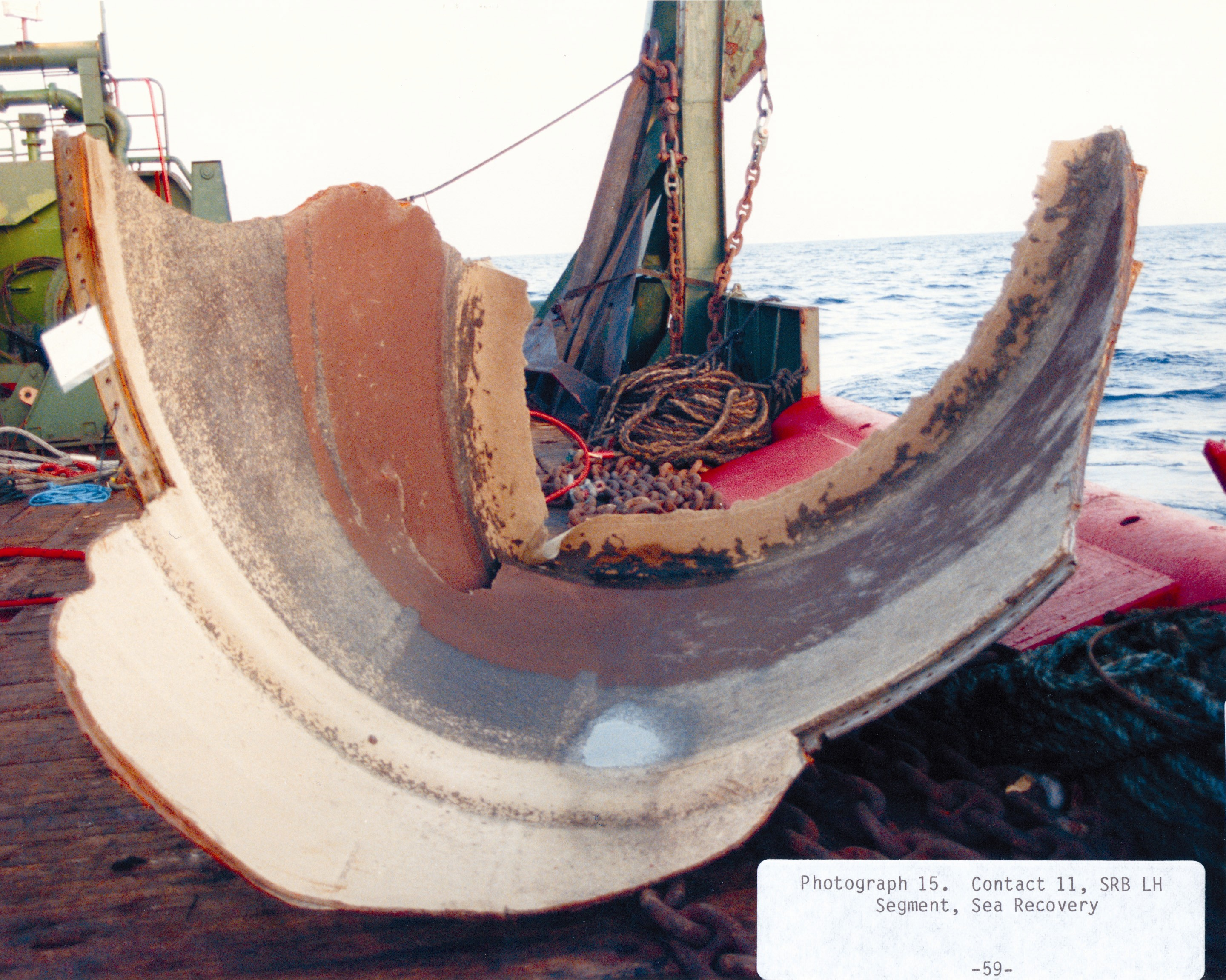 On January 28, 1986, the Space Shuttle Challenger and her seven-member crew were lost when a ruptured O-ring in the right Solid Rocket Booster caused an explosion soon after launch. Search and recovery teams lifted this fragment of the Shuttle's Solid Rocket Booster (SRB) from the ocean onto a waiting ship and then returned it to Kennedy Space Center for the investigation into causes of the accident. A chemical profile on the propellant traces remaining on the metal combined with its ocean location in comparison to radar trajectory charts led the teams to conclude that this piece of debris belonged to the left-hand SRB.